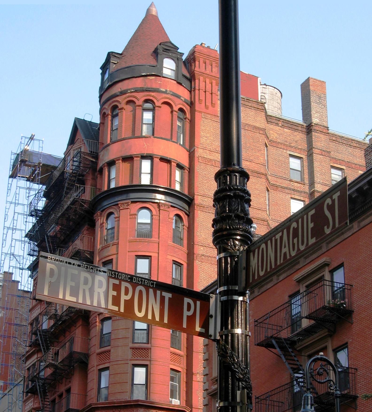 62 Monatgue Street between Pierrepont Place and Hicks Street